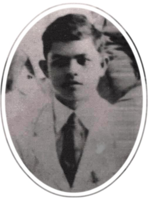 Photo of Ludovico Arroyo Bañas